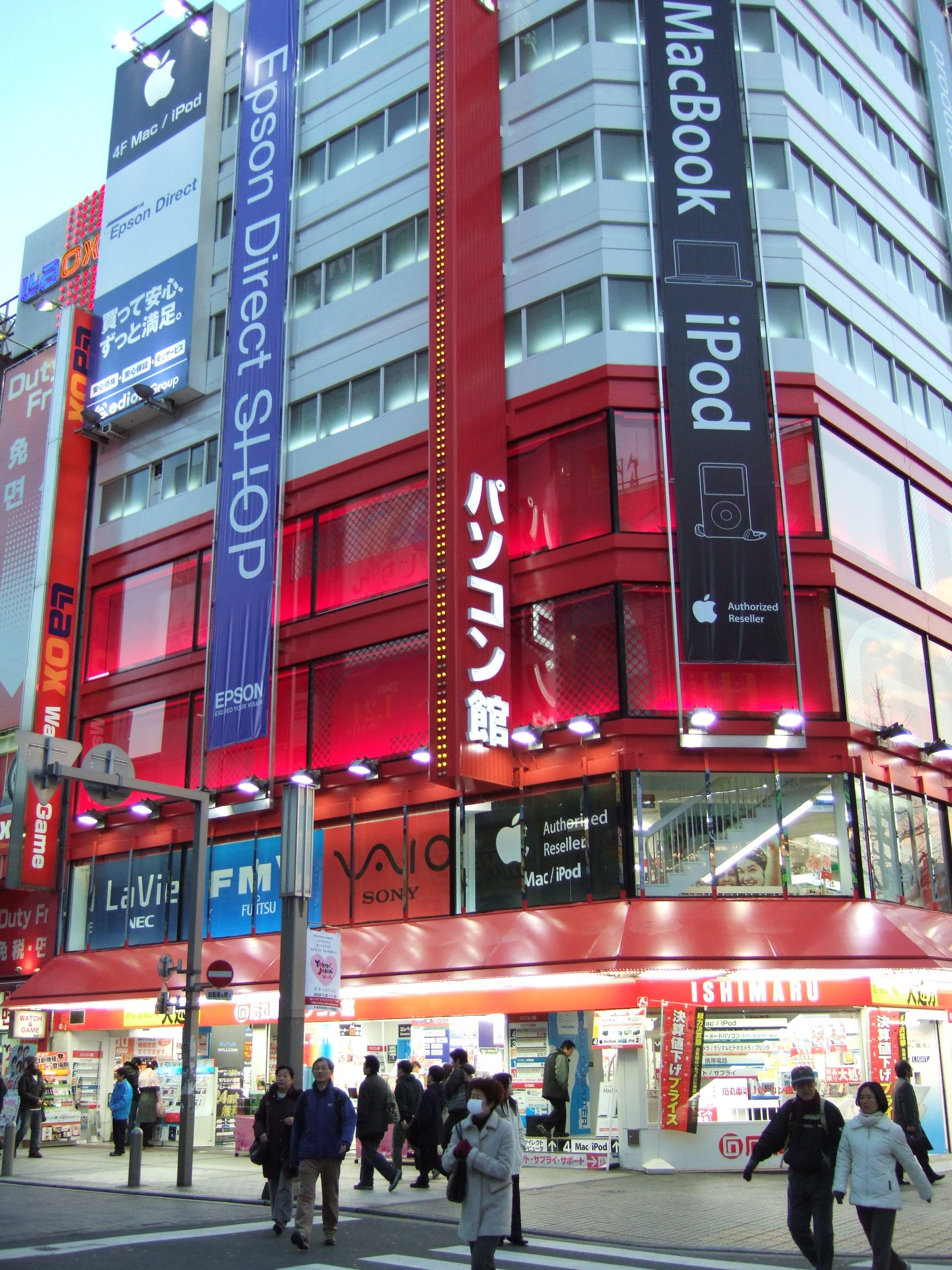 Tokyo, Akihabara district, in the evening.